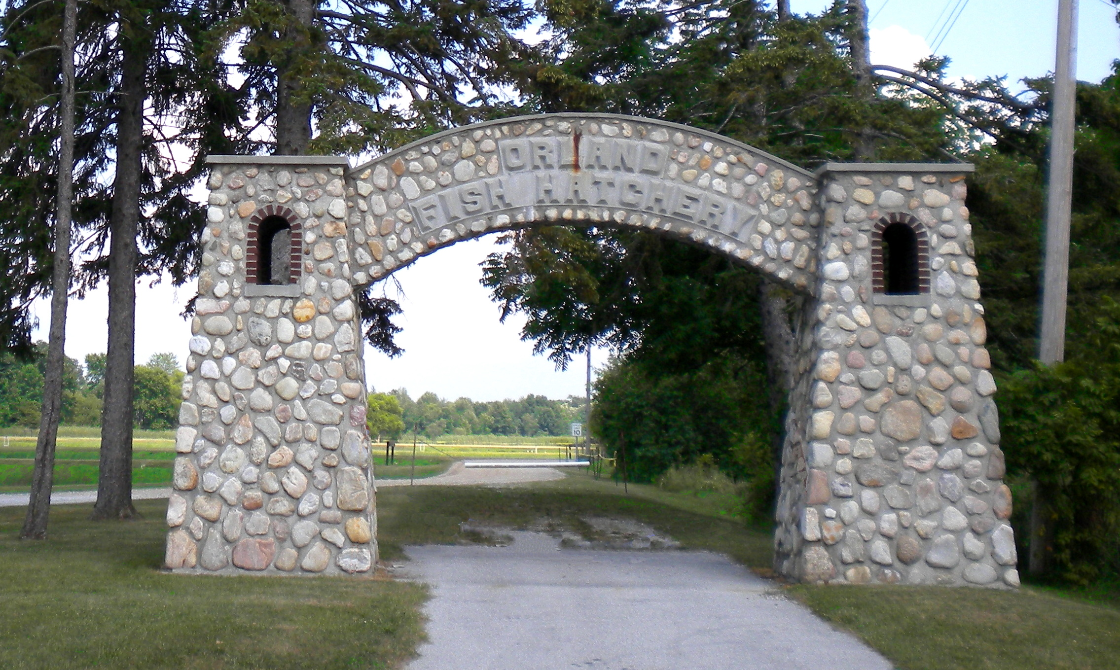 The old stone arch that sat over the original entrance to the Orland Fish Hatchery. The Orland Fish Hatchery has been taken over by the State of Indiana and renamed the Fawn River State Fish Hatchery and the site is on the National Register of Historic Places.